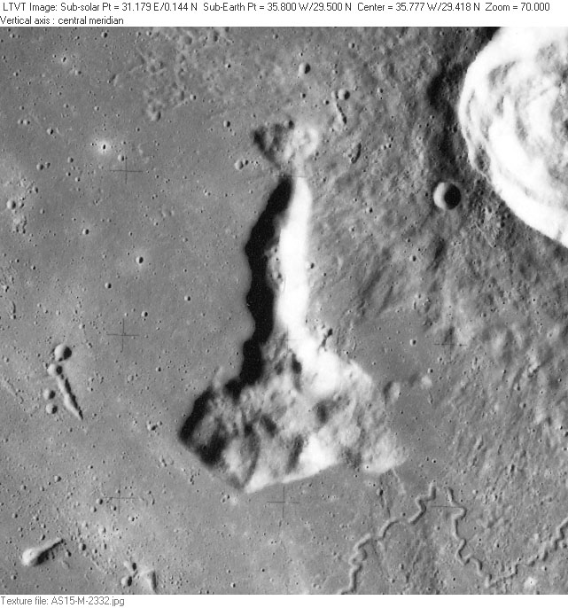 Aerial photo of Mons Delisle on the Moon taken during the Apollo 15 mission. Designation:AS15-M-2332